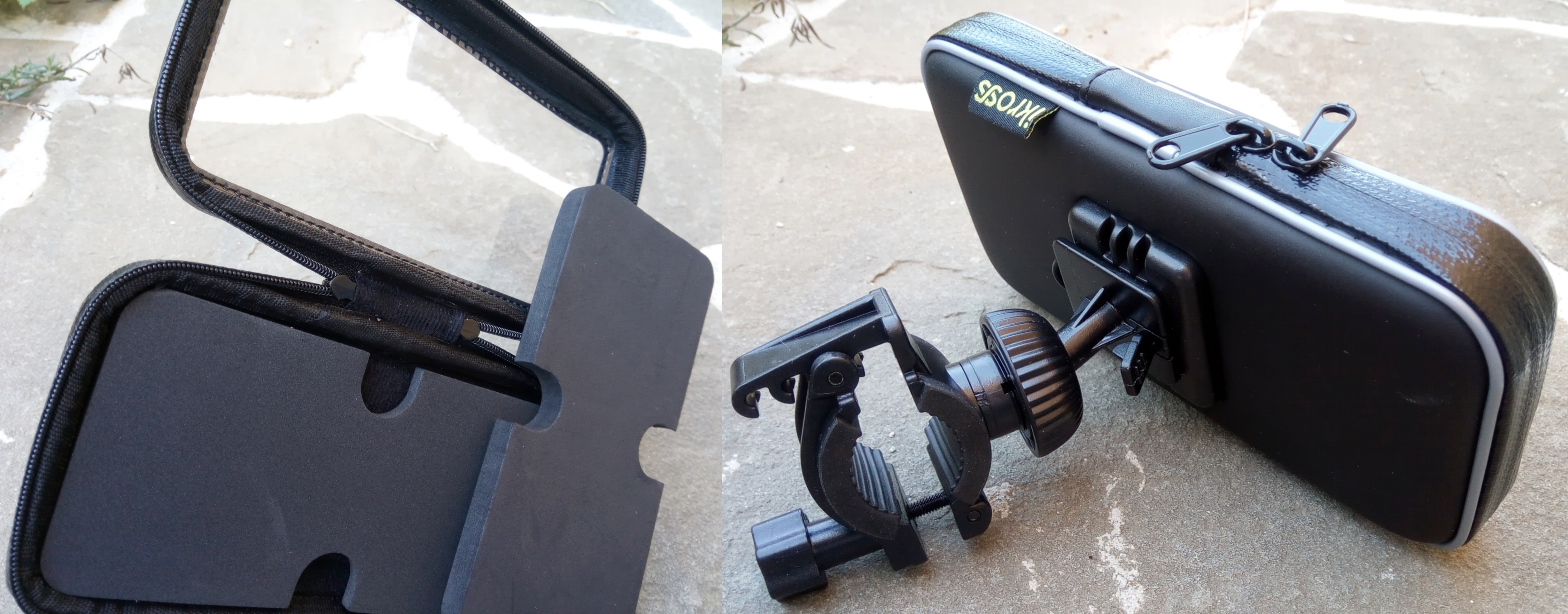 Navigator or smartphone case for motorcycle use, characterized by waxed hinge and transparent window compatible with capacitive screens